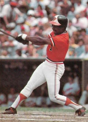 Professional baseball player Al Bumbry